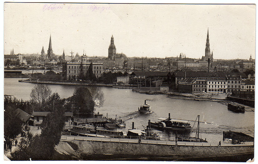 Panorama of Riga, Latvia, seen from the other side of the Daugava River